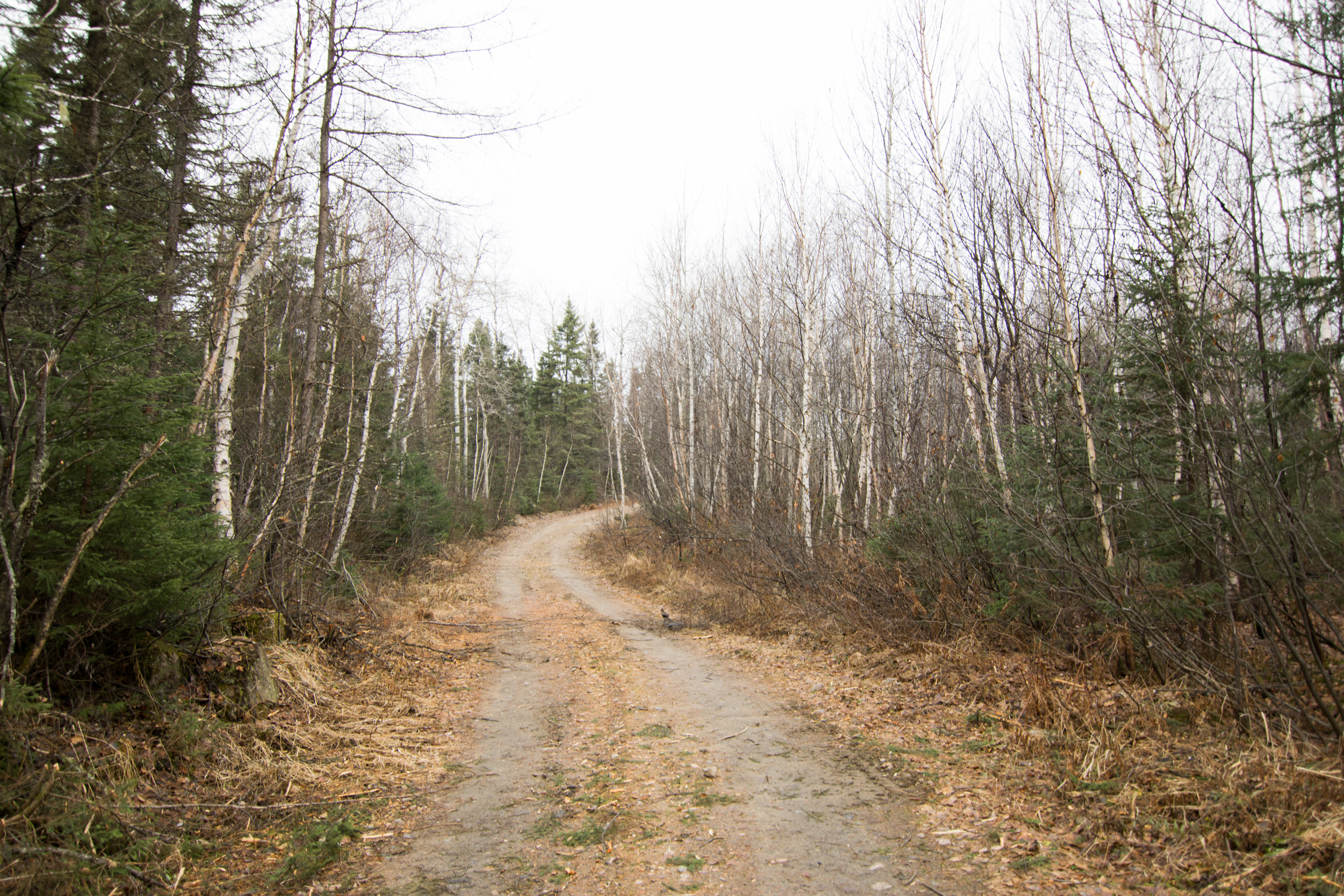 A path in the Ashuapmushuan Wildlife Reserve, Quebec, Canada.